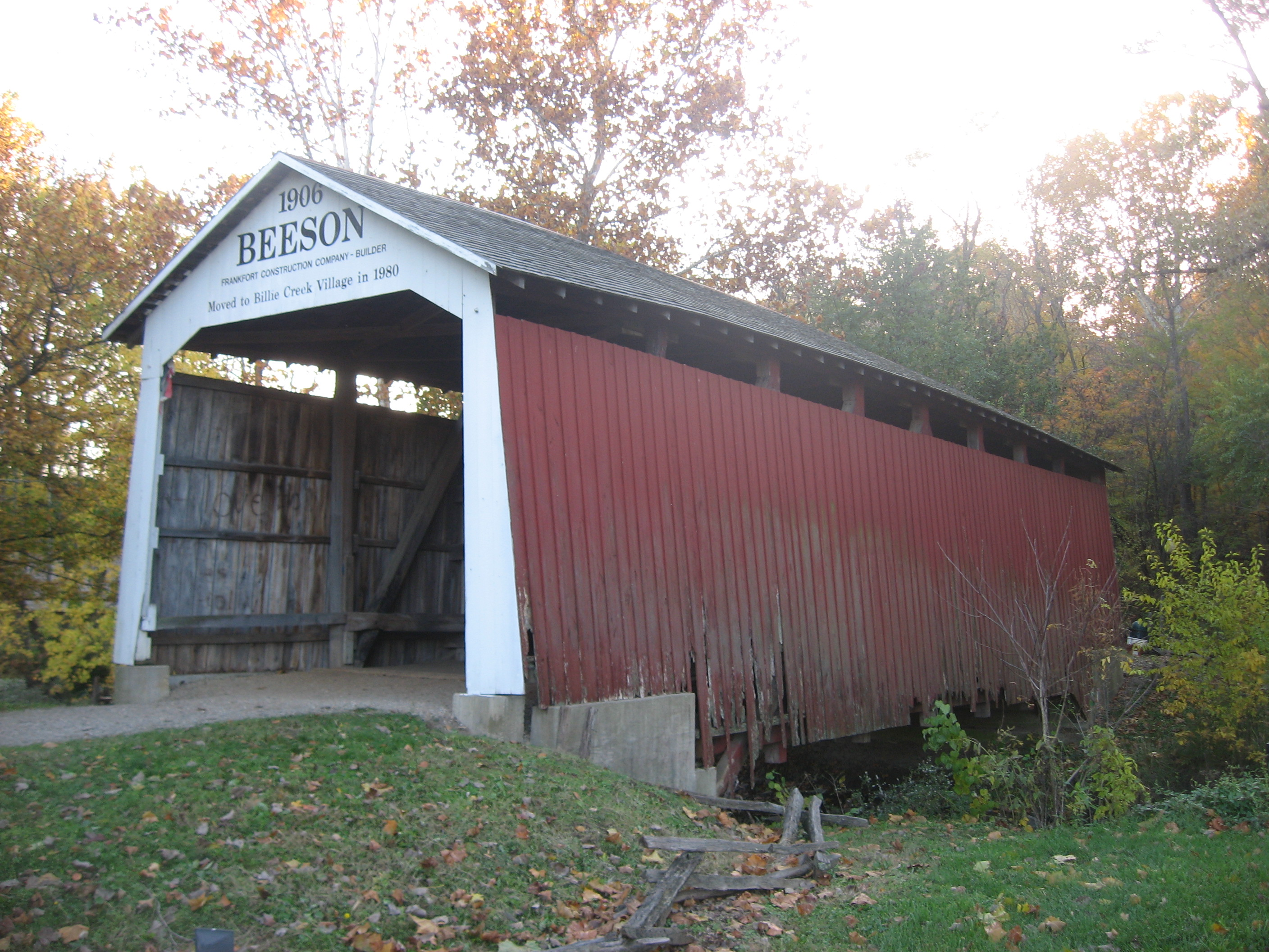 Eastern portal and northern side of the Beeson Covered Bridge, located off U.S. Route 36 on the grounds of the former Billie Creek Village in Adams Township, Parke County, Indiana, United States. Built in 1906 and moved to its present location in 1980, it is listed on the National Register of Historic Places.